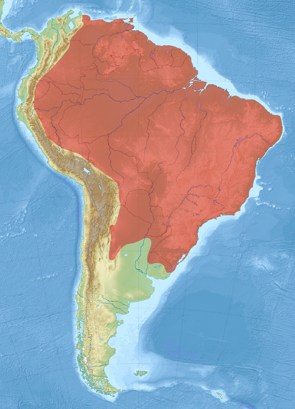 Distribution map of the Southern tamandua